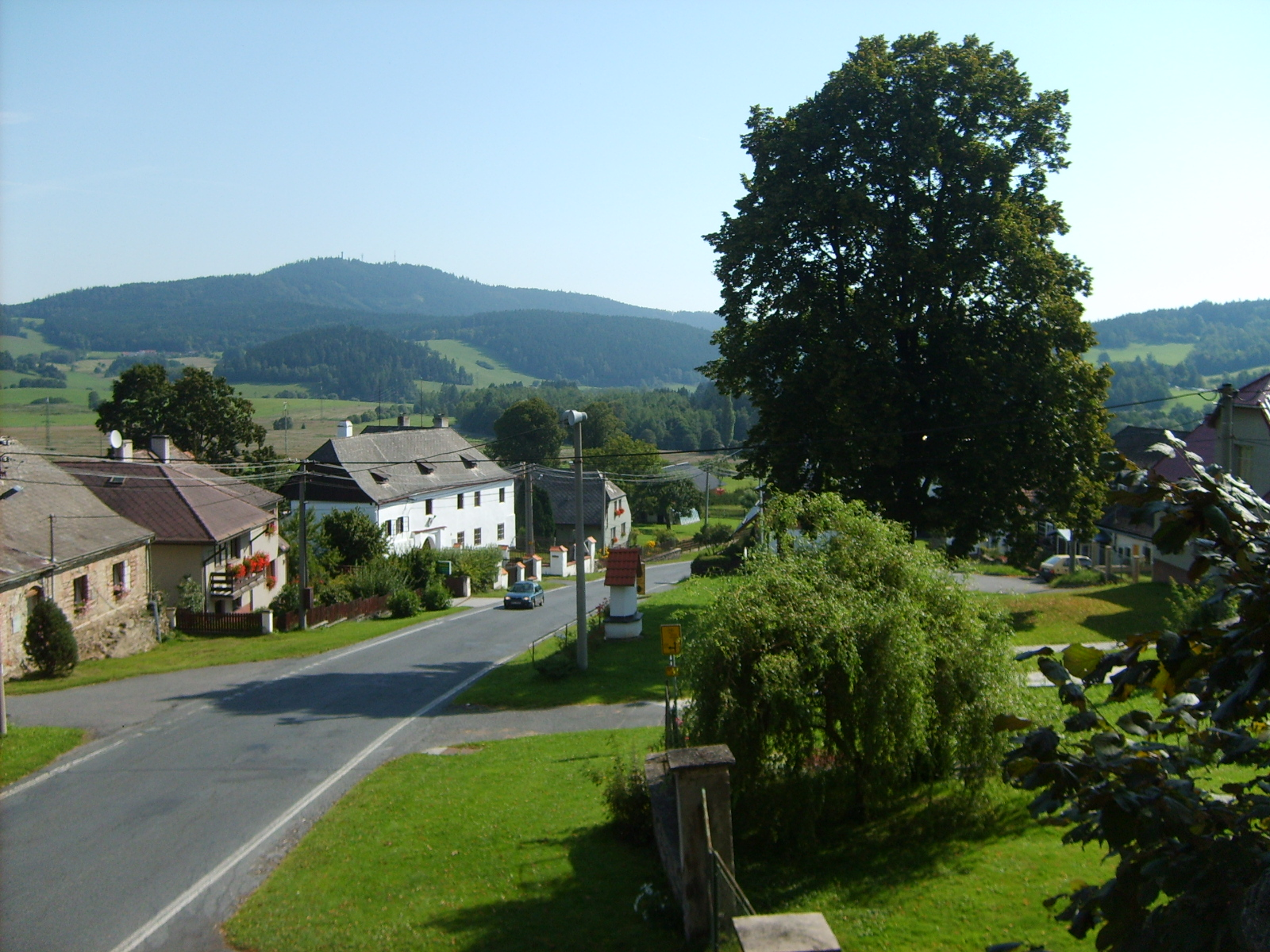 Lower part of Petrovice u Sušice. In Background Svatobor hill.